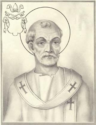 Illustration of Pope Eusebius. 1911 redrawing of the illustration in BSB Cod.icon. 375 (17th century)